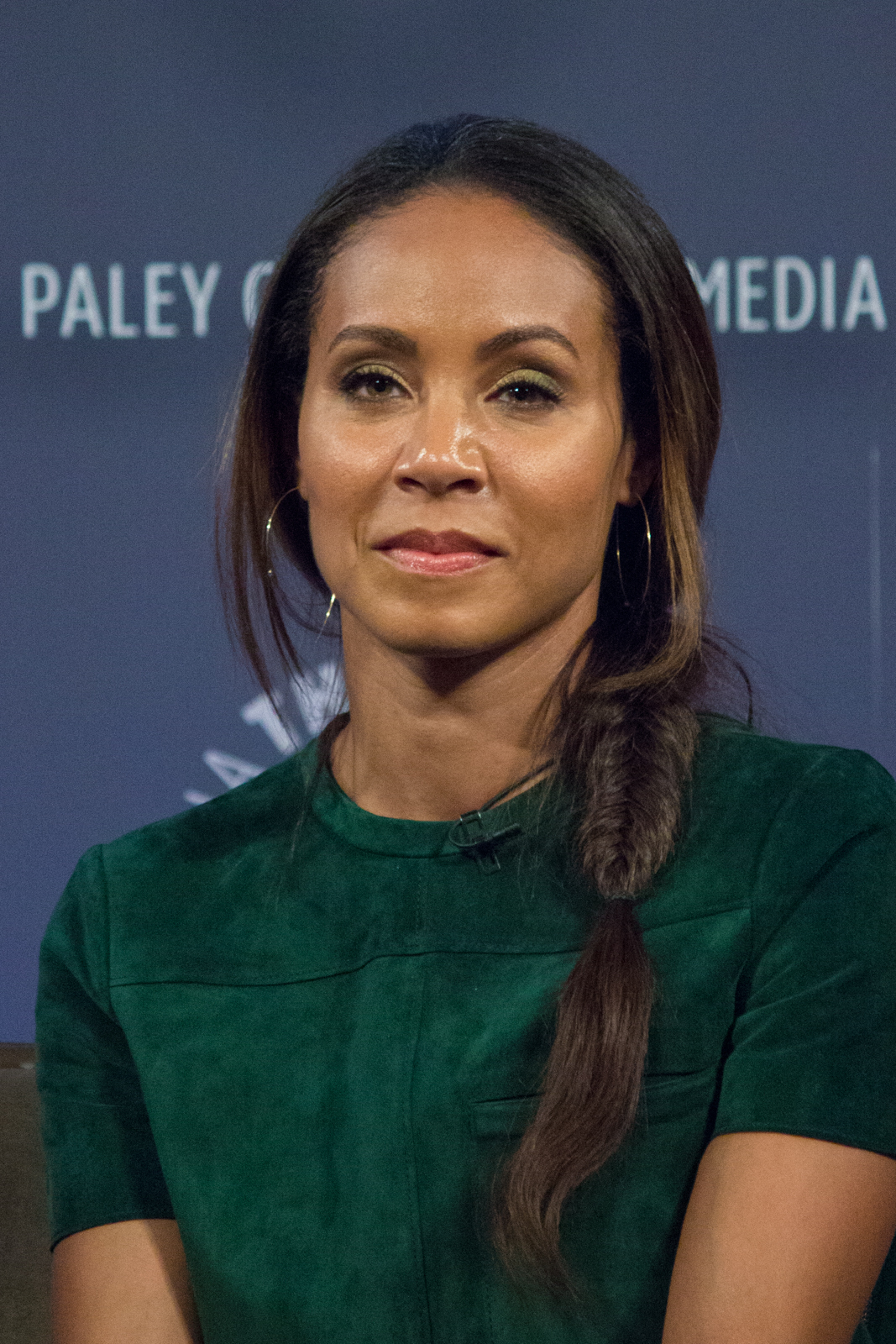 Actor Jada Pinkett Smith at the NY PaleyFest 2014 for the TV show Gotham